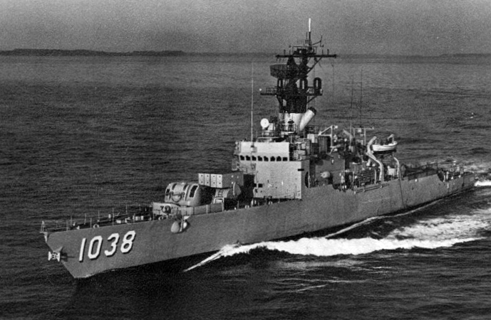 The U.S. Navy Bronstein-class destroyer escort USS McCloy (DE-1038) during the "UNITAS IX" excerise off South America, in 1968.